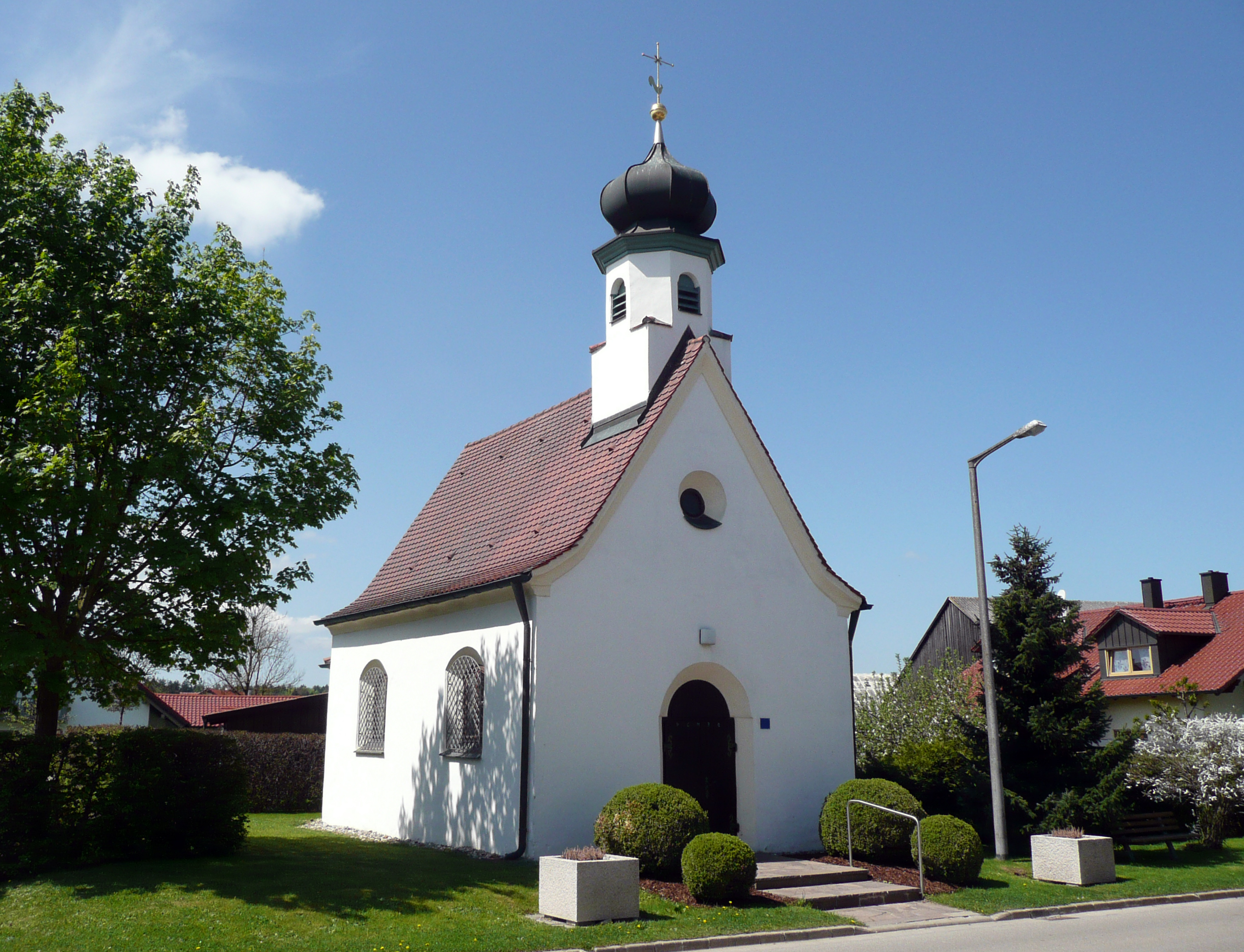 Chapel St. Sebastian in Buch near Kipfenberg seen from E. This is a photograph of an architectural monument.